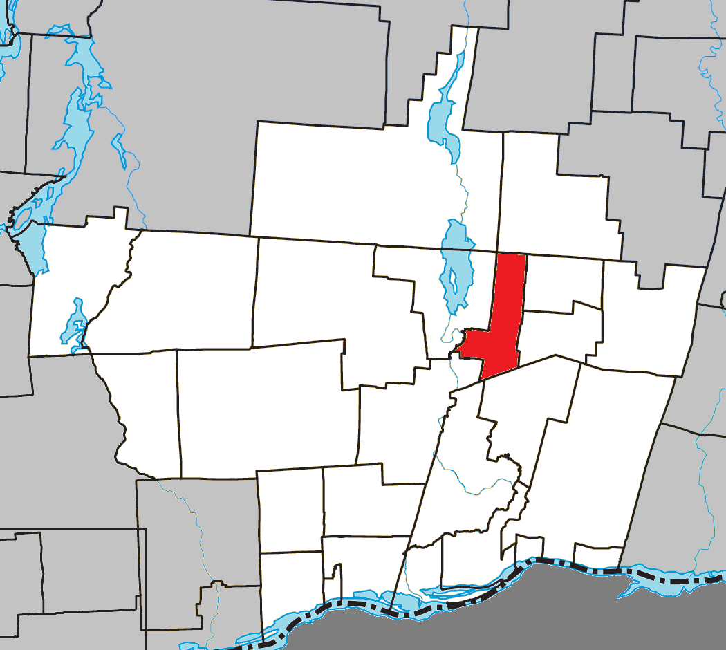 Location of Chénéville, Quebec within Papineau Regional County Municipality.